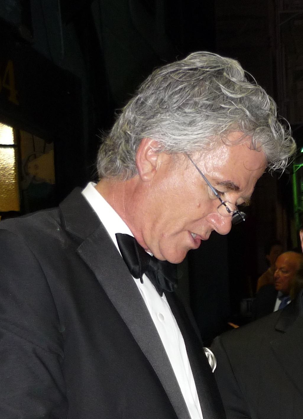 Patrick Duffy in 2009